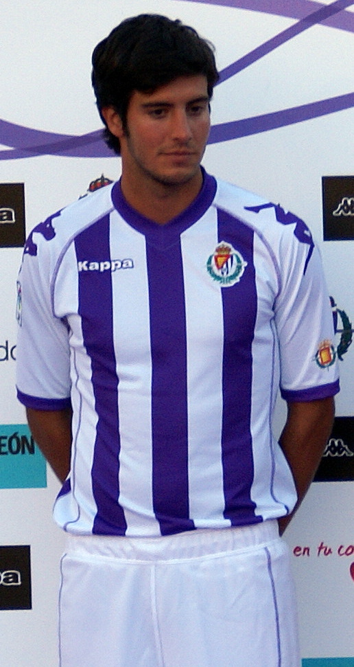 Marc Valiente for Real Valladolid during the 2010-11 new shirts show in Valladolid.